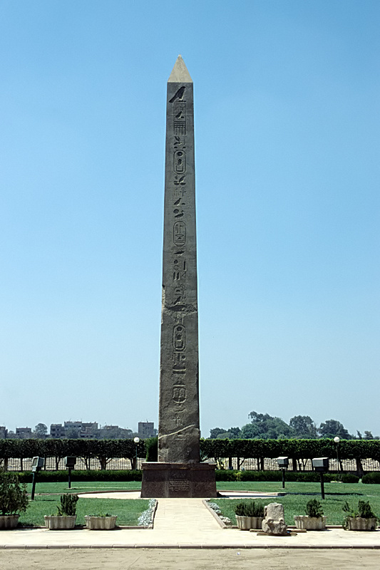 Obelisk of Senusret I, el-Matariya, Cairo, Egypt